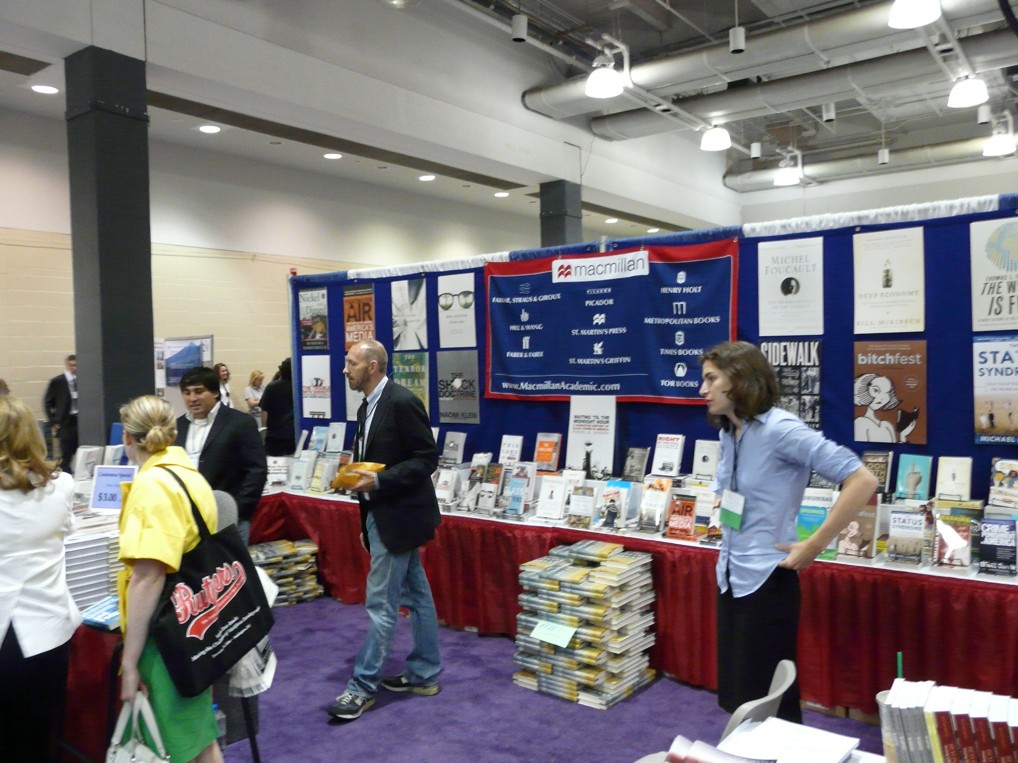 Boston. American Sociological Association conference.